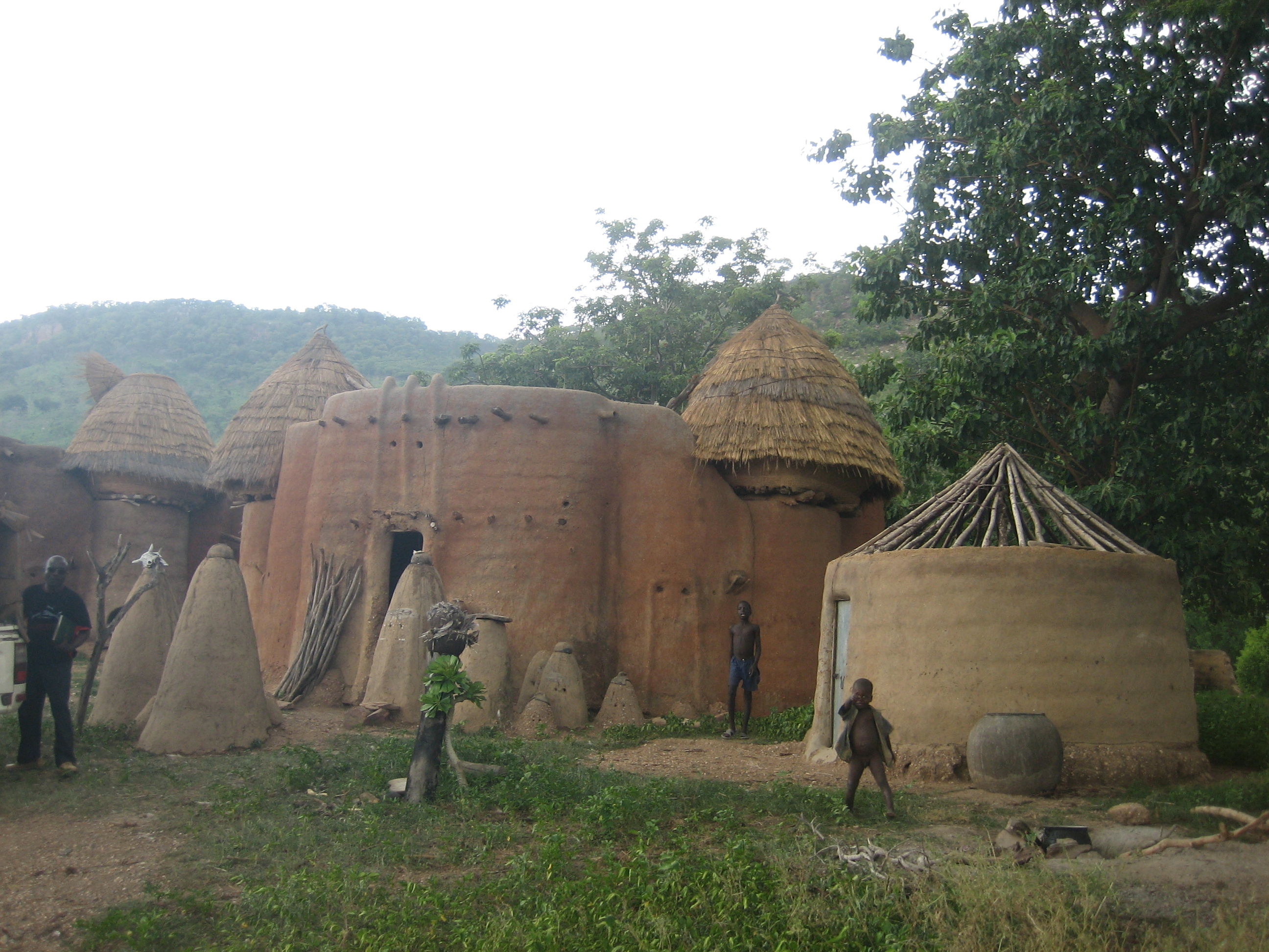 Local house in the Taberma Valley in Togo. The whole area is deignated a UNESCO Heritage